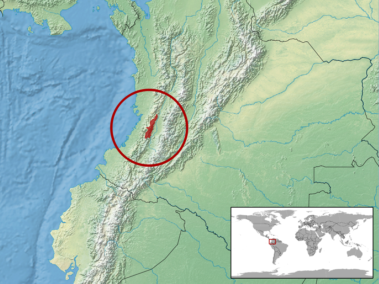 geographic distribution of Ptychoglossus stenolepis